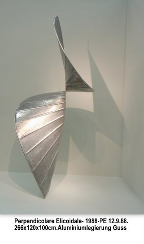 Perpendicolare Elicoidale (1988) PE 12.9.88. 266x120x100cm. Aluminiumlegierung Guss. Art Cologne, 2014